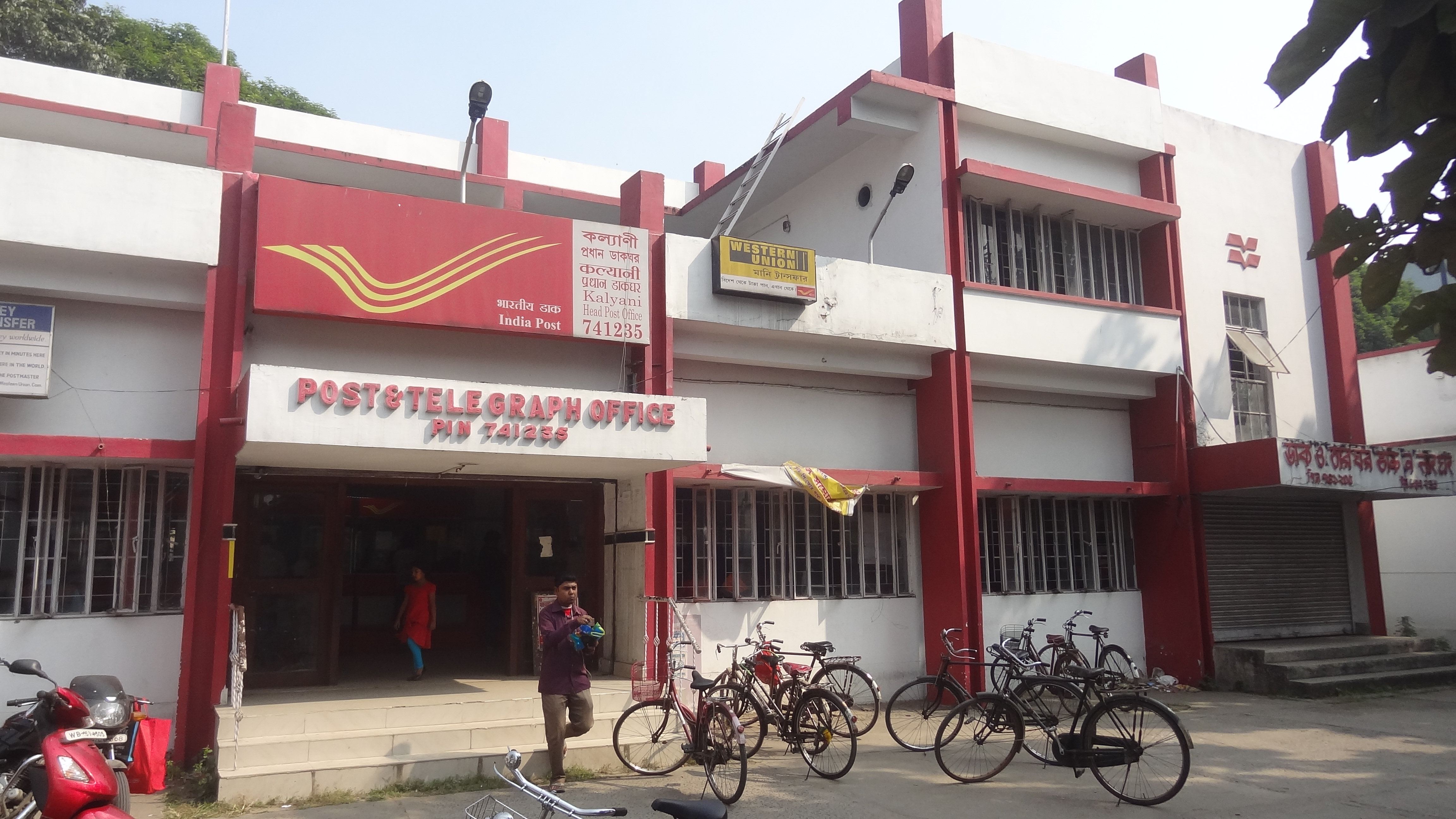 Kalyani Post Office, West Bengal